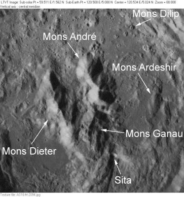 This Apollo 16 view of the floor of the crater King shows the location of Sita -- a fresh impact crater with a spray of bright ejecta to the east. It appears to have hit on the steep slope of what appears to be a landslide from the south rim, terminating near the part of the central peaks known as Mons Ganau. Other IAU-named features in this view are Mons André, Mons Dieter, Mons Ardeshir, and Mons Dilip.